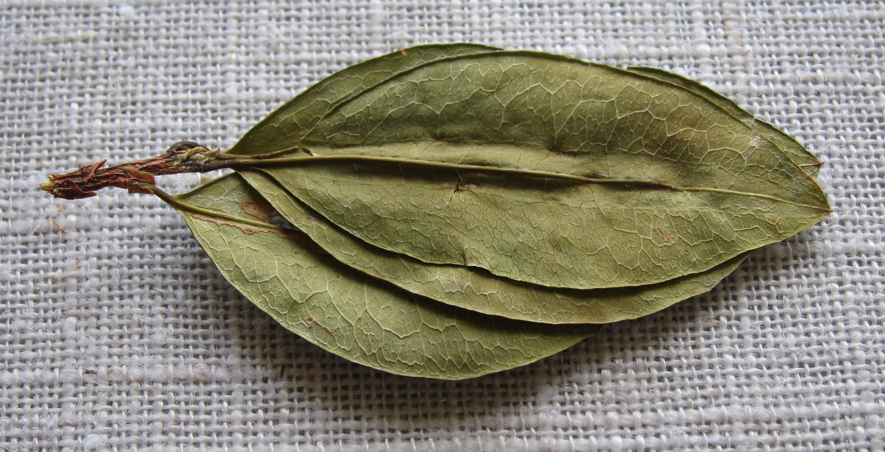 Three coca leaves on one stem (auspicious in Quechua culture).